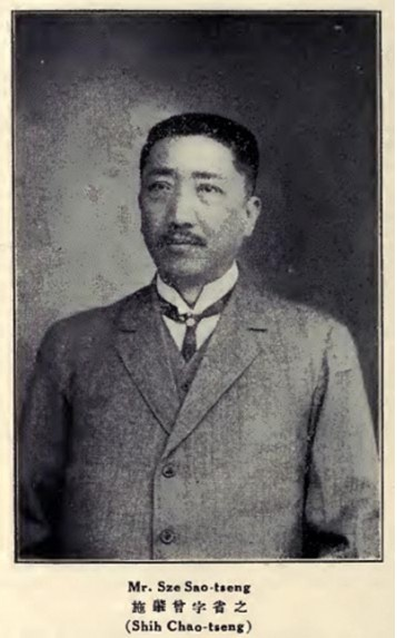 Shi Zhaozeng (1867-1945)